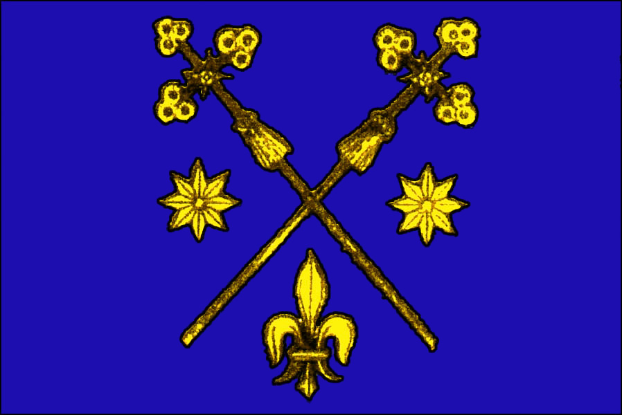 Municipal flag of Doubravník market town, Brno-Country District, Czech Republic.